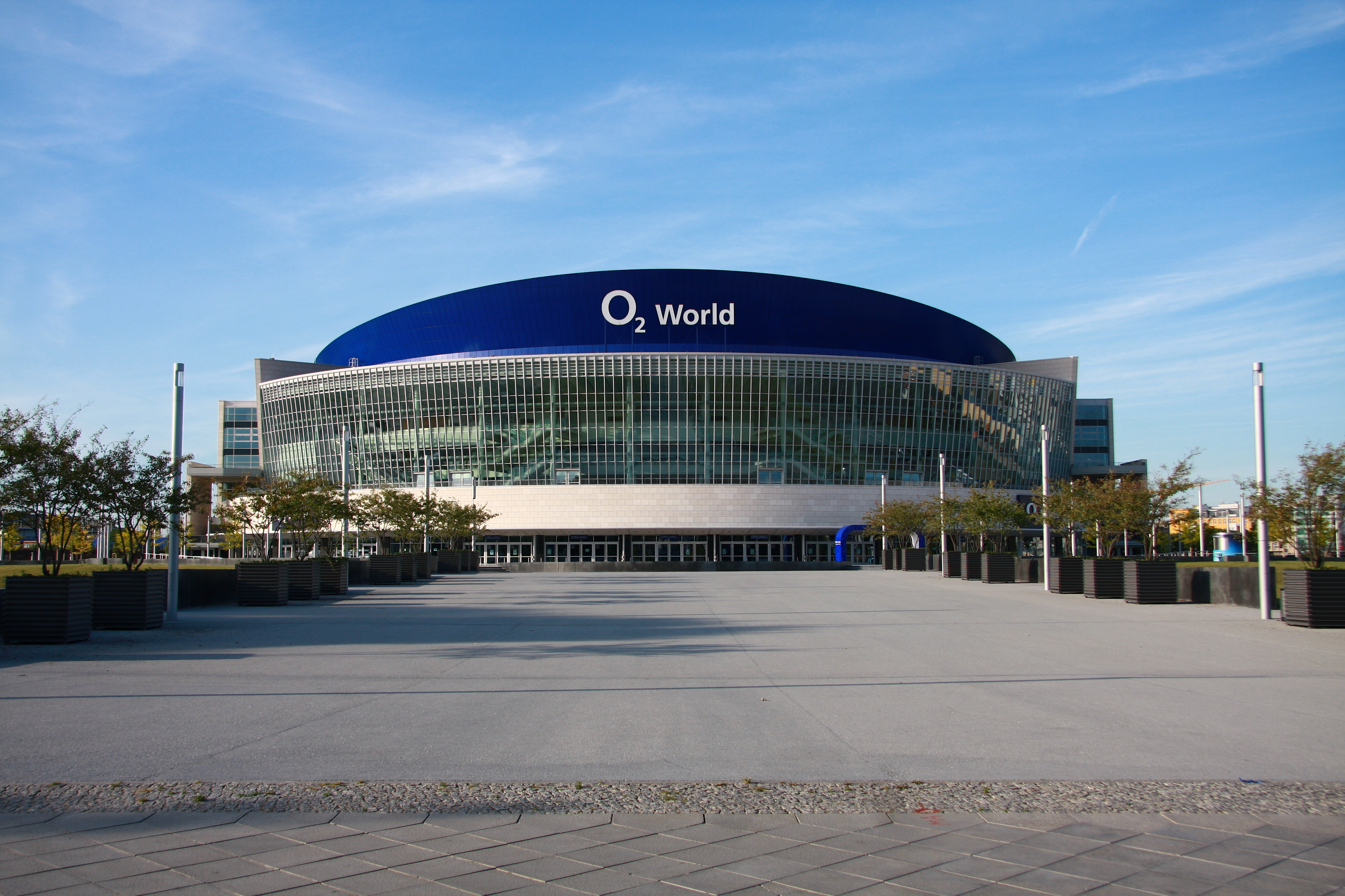 O₂ World in Berlin